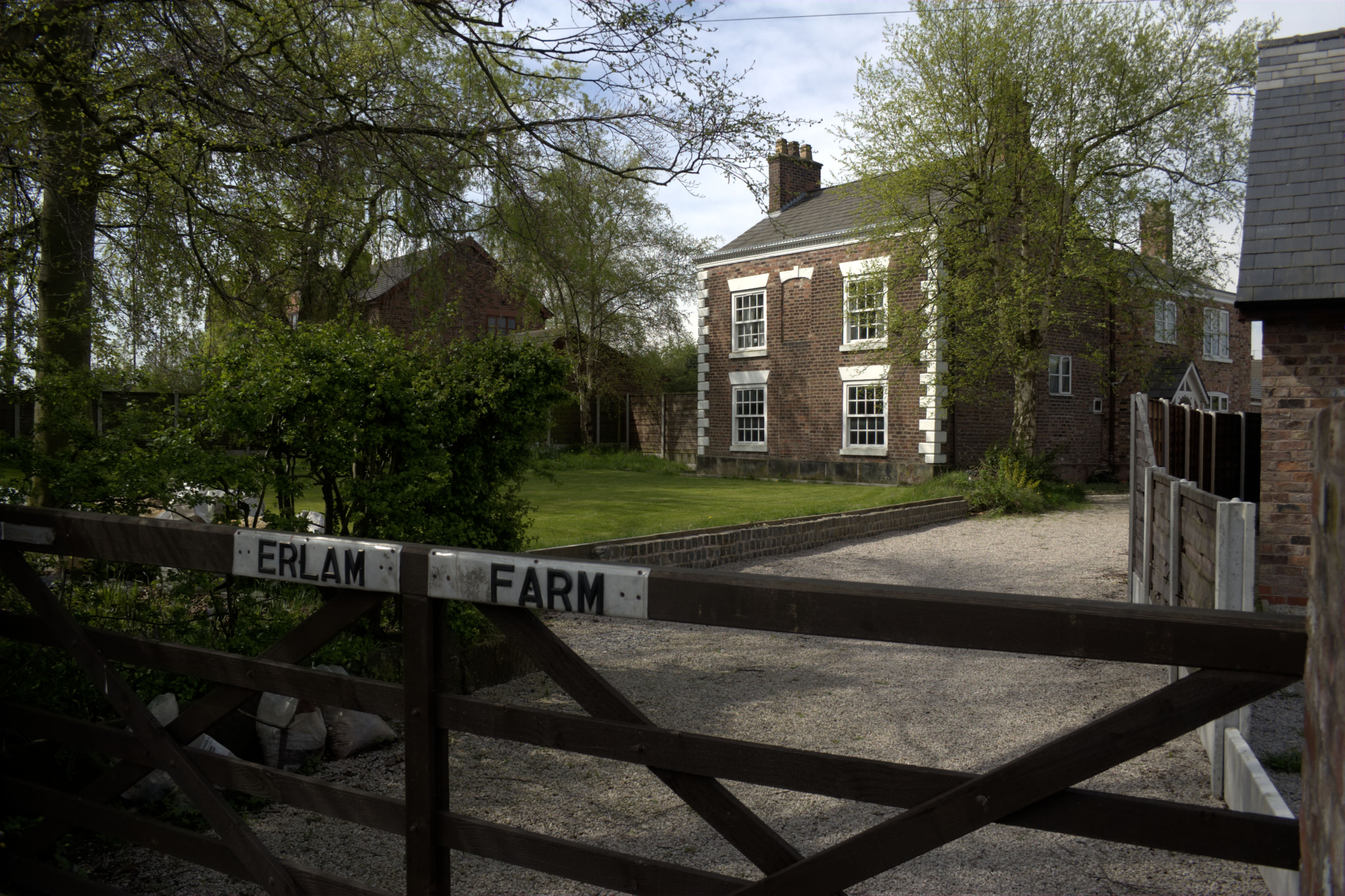 One of the more expensive properties, a farm, in Partington, Greater Manchester.